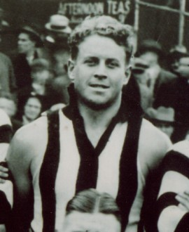 Photo of Keith Fraser from 1933-1936